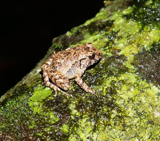 Craugastor polyptychus